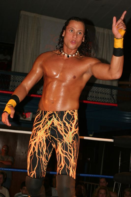 Matt Taven at a TRP show in June 19, 2009.